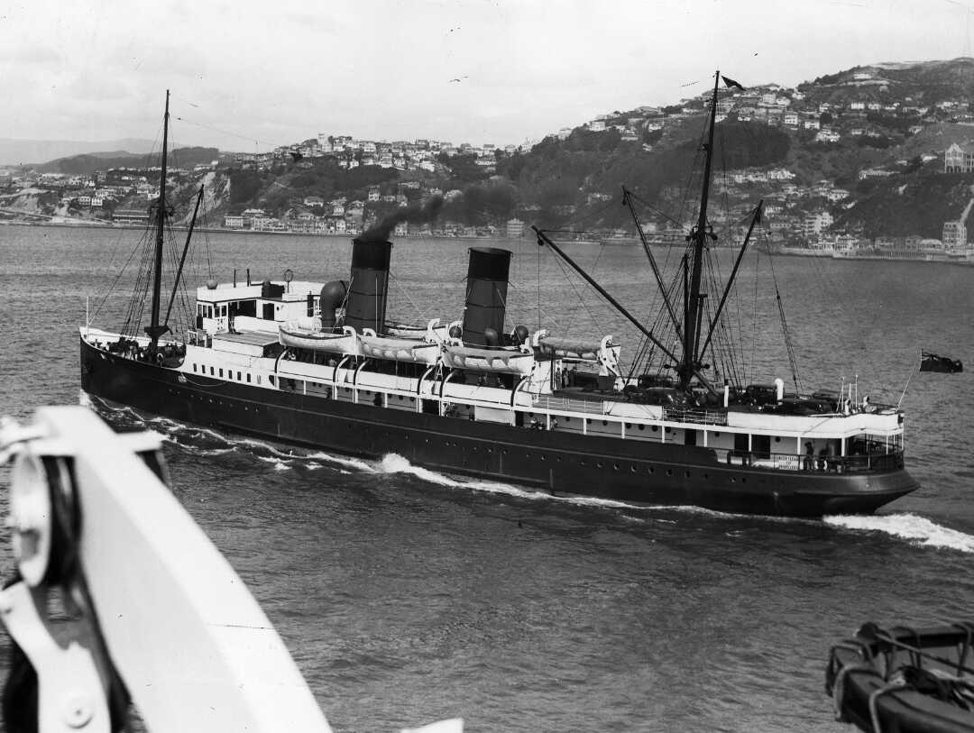 The steamship Tamahine leaving Wellington on the 14th of November 1938. Taken from the deck of the Awatea, by an unidentified photographer.